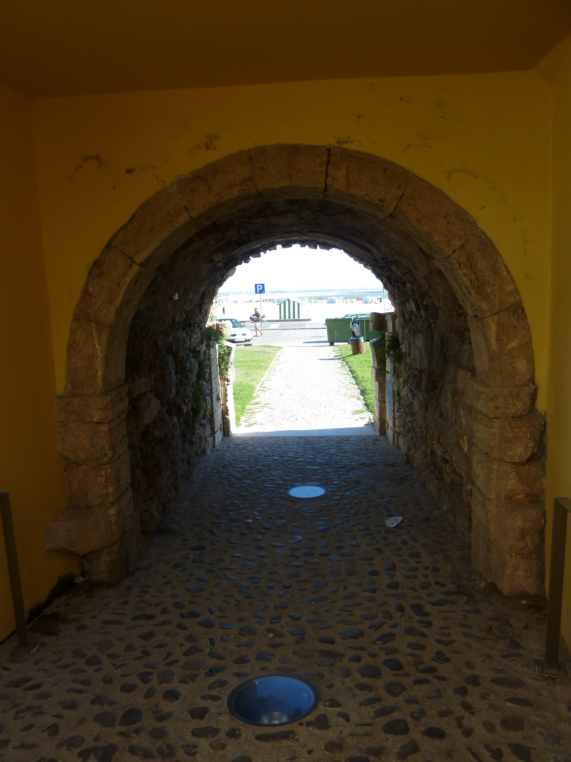 This file was uploaded for Wiki Loves Monuments in Portugal with the unique identifier 73660.